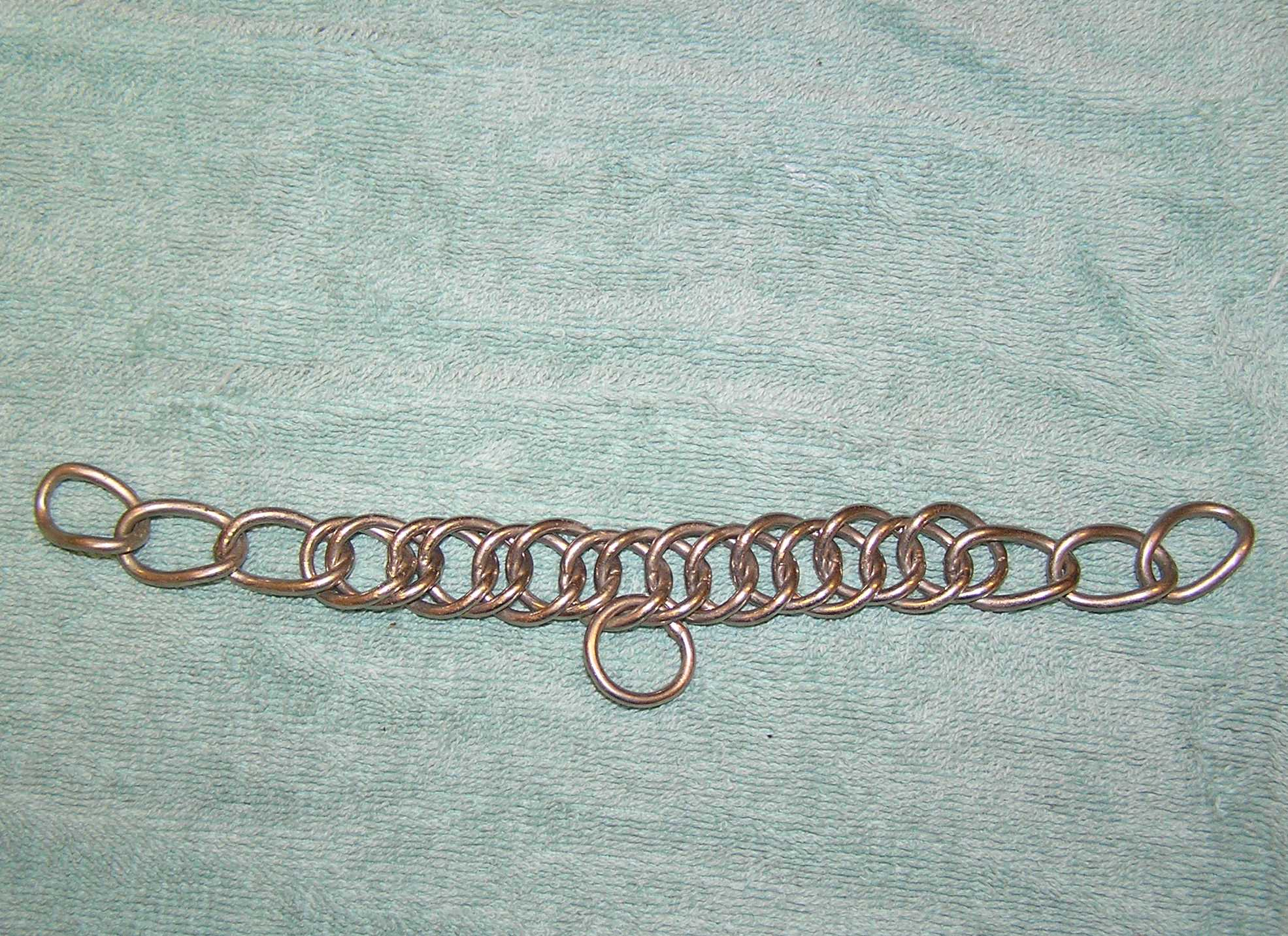 Curb chains are used with curb bits, in this case on an English bridle. Chain must lay flat against the jaw under USEF rules and those of most other organizations